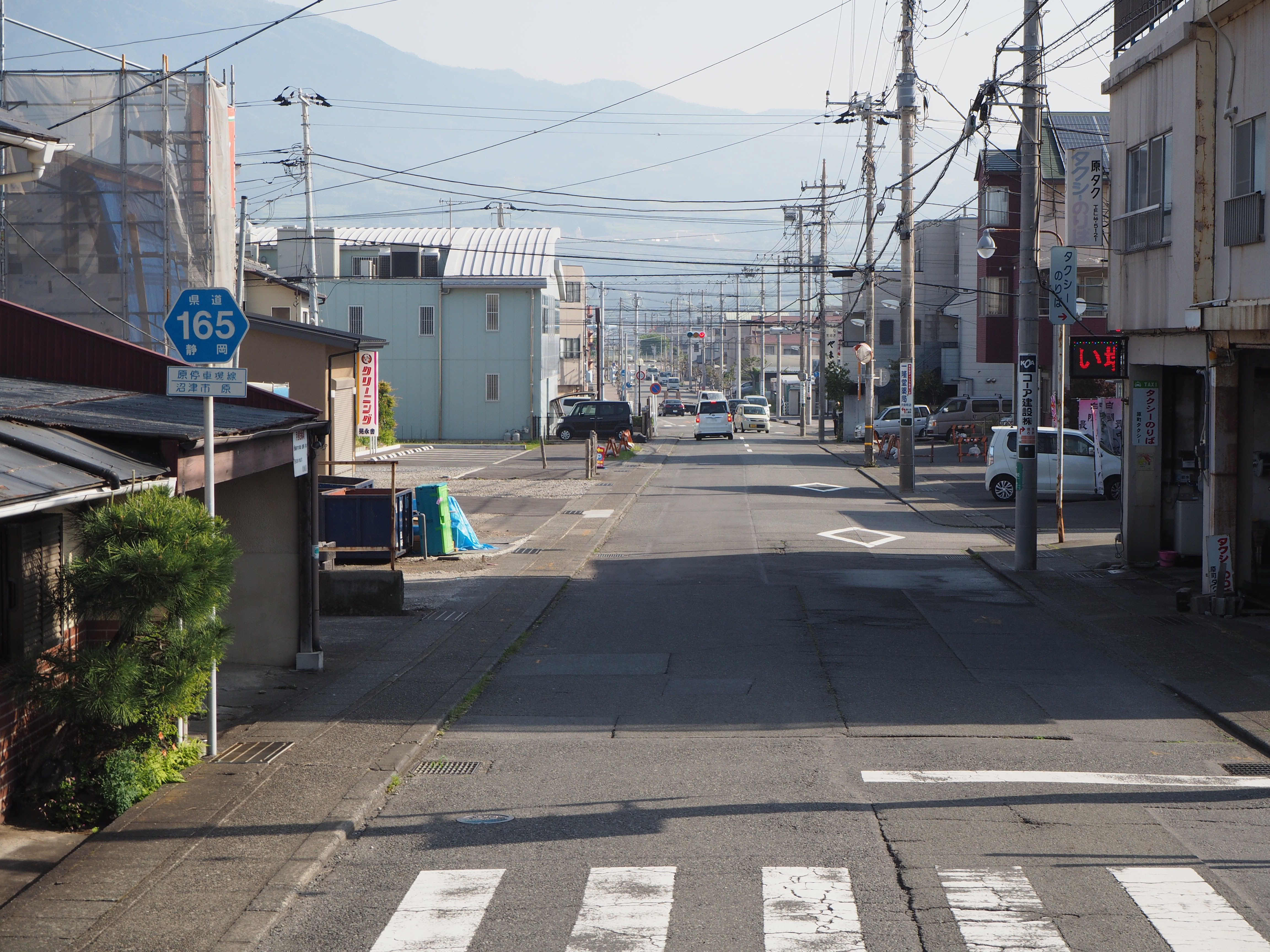 Shizuoka prefectural road Route 165